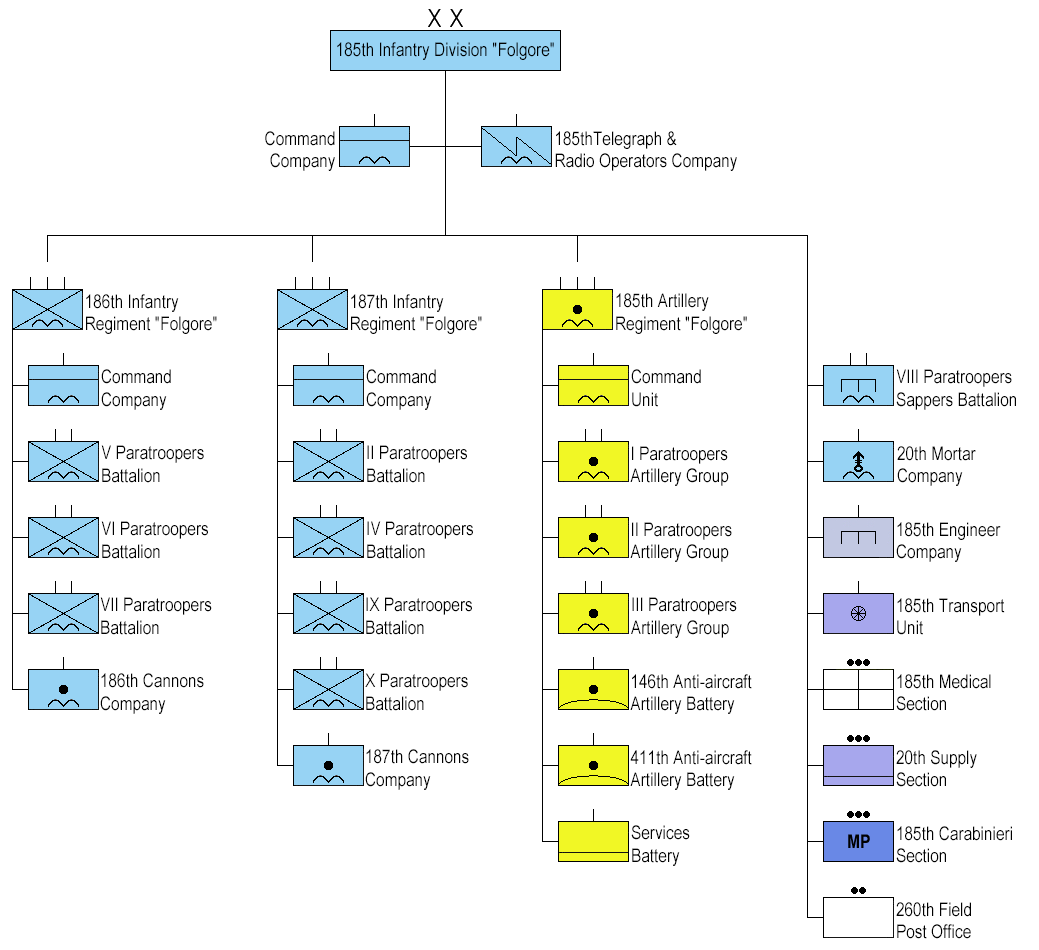 Italy World War II 185 Airborne Division Folgore Structure August 1942